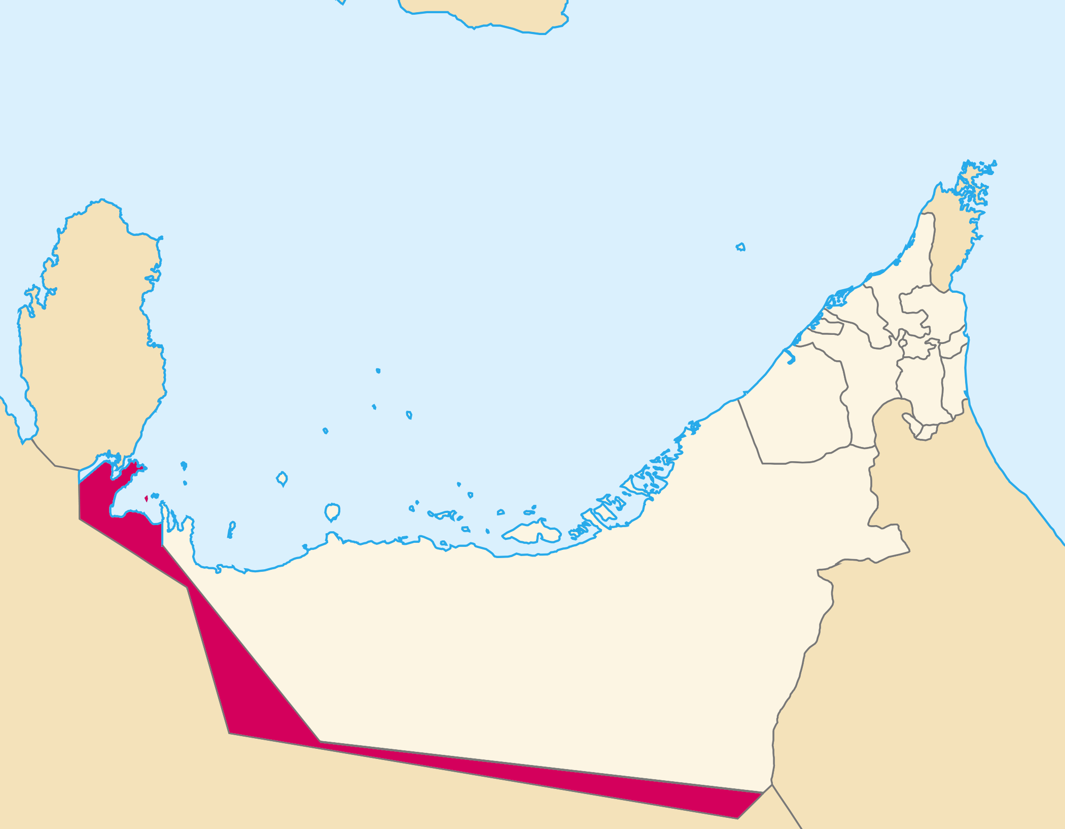 Approximate difference between the land boundary separating the territory of the Kingdom of Saudi Arabia and the territory of the United Arab Emirates previously and after the treaty of Jeddah signed in Jeddah between Faisal of Saudi Arabia and Sheikh Zayed in 1974. As per approximate difference between previous borders, red indicates the previous territory of the Emirate of Abu Dhabi that is now part of Saudi Arabia. Note the Island of Huwaysat is also highlighted in red. The file is recreated from a map found in page 178 of Noura Saber Al Mazrouei thesis titled UAE-Saudi Arabia Border Dispute:The Case of the 1974 Treaty of Jeddah submitted and published online by the University of Exeter's Institute of Arab and Islamic Studies in 2013 which was sourced from Foreign Office Minute by J. P. Bannerman, “Saudi-Abu Dhabi Frontier Settlement,” 16 August 1974, enclosing map illustration the cession, FCO8/ 2357, TNA, London, in Arabian Boundaries, ed. Schofield, vol. 15, p.234. The file created is not created with the notion of 100% accurate geographical coordinates set in the treaty of Jeddah.